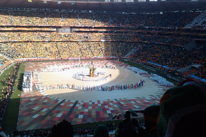 Opening Ceremony of the 2010 FIFA World Cup South Africa